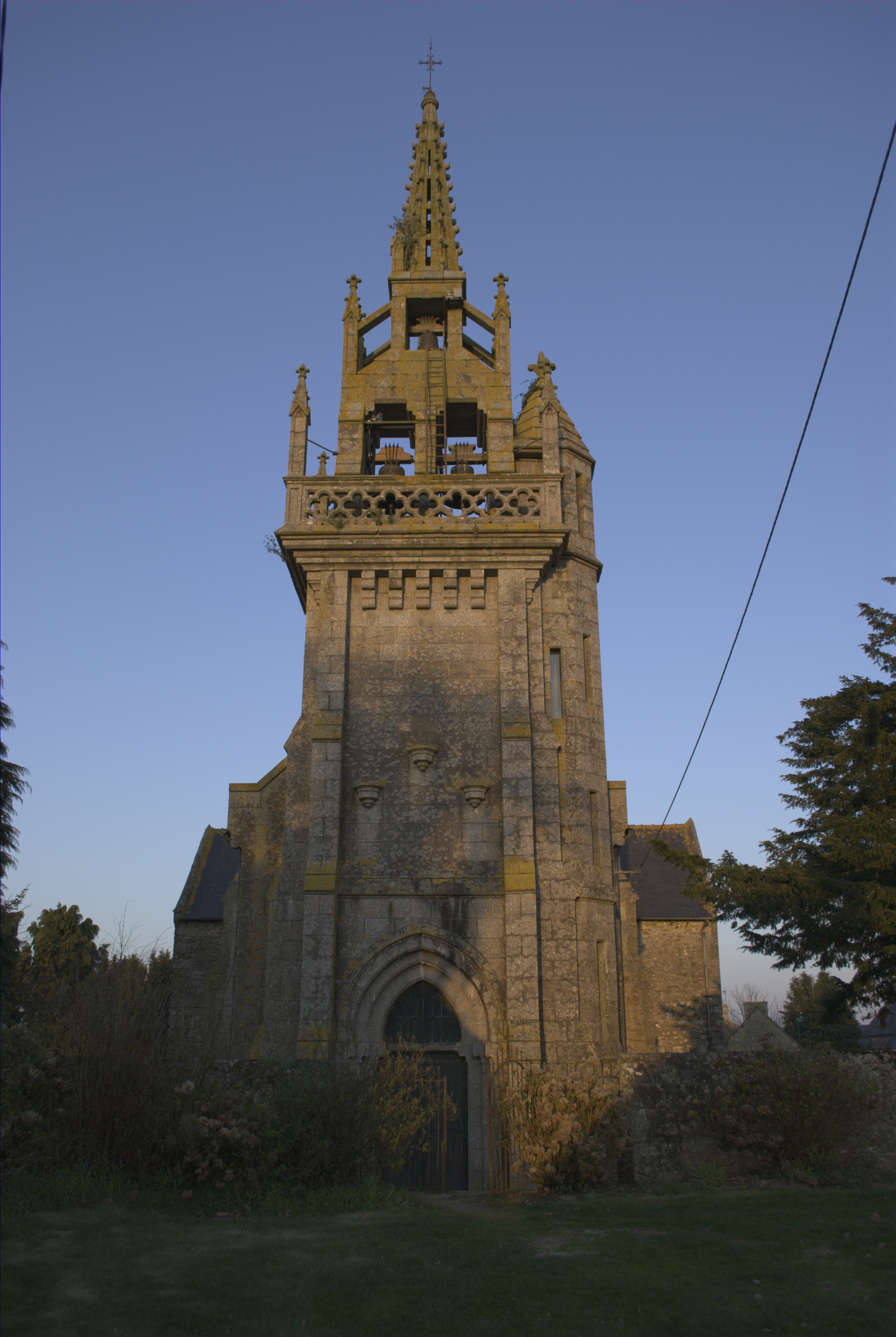 Church of Saint-Connan in the village of Saint-Connan(France).